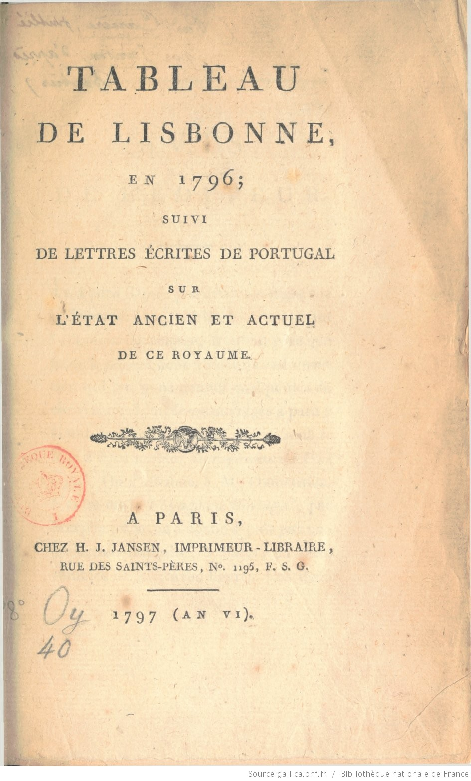 Cover of thee book by Joseph Barthélémy François Carrère Tableau de Lisbonne en 1796, from 1797